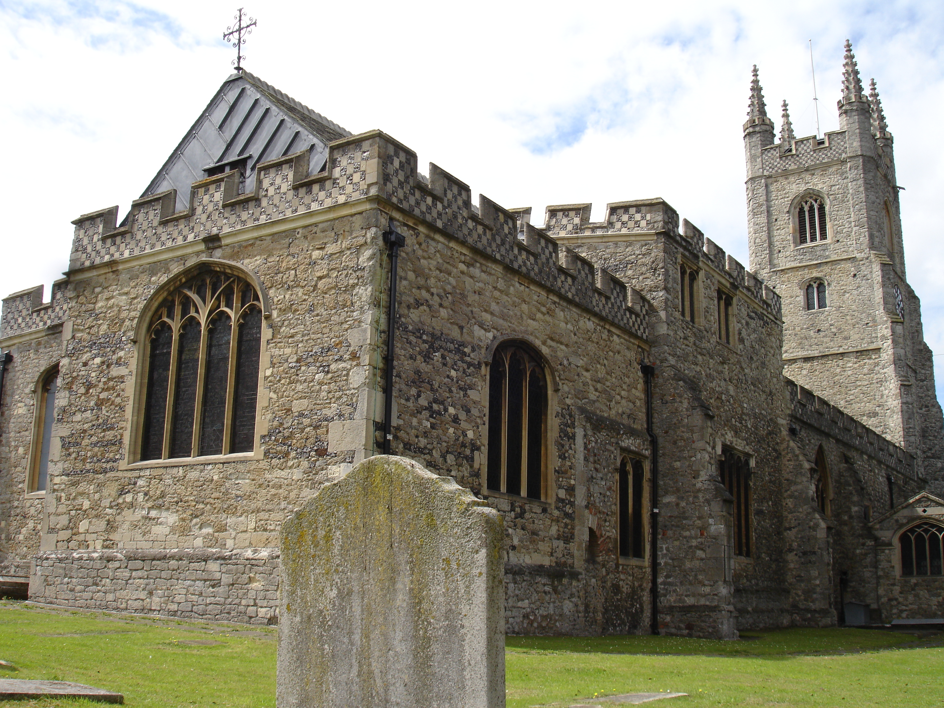 Chancel of St Mary the Virgin parish church, Prittlewell, Southend-on-Sea, Essex, England, seen from the northeast